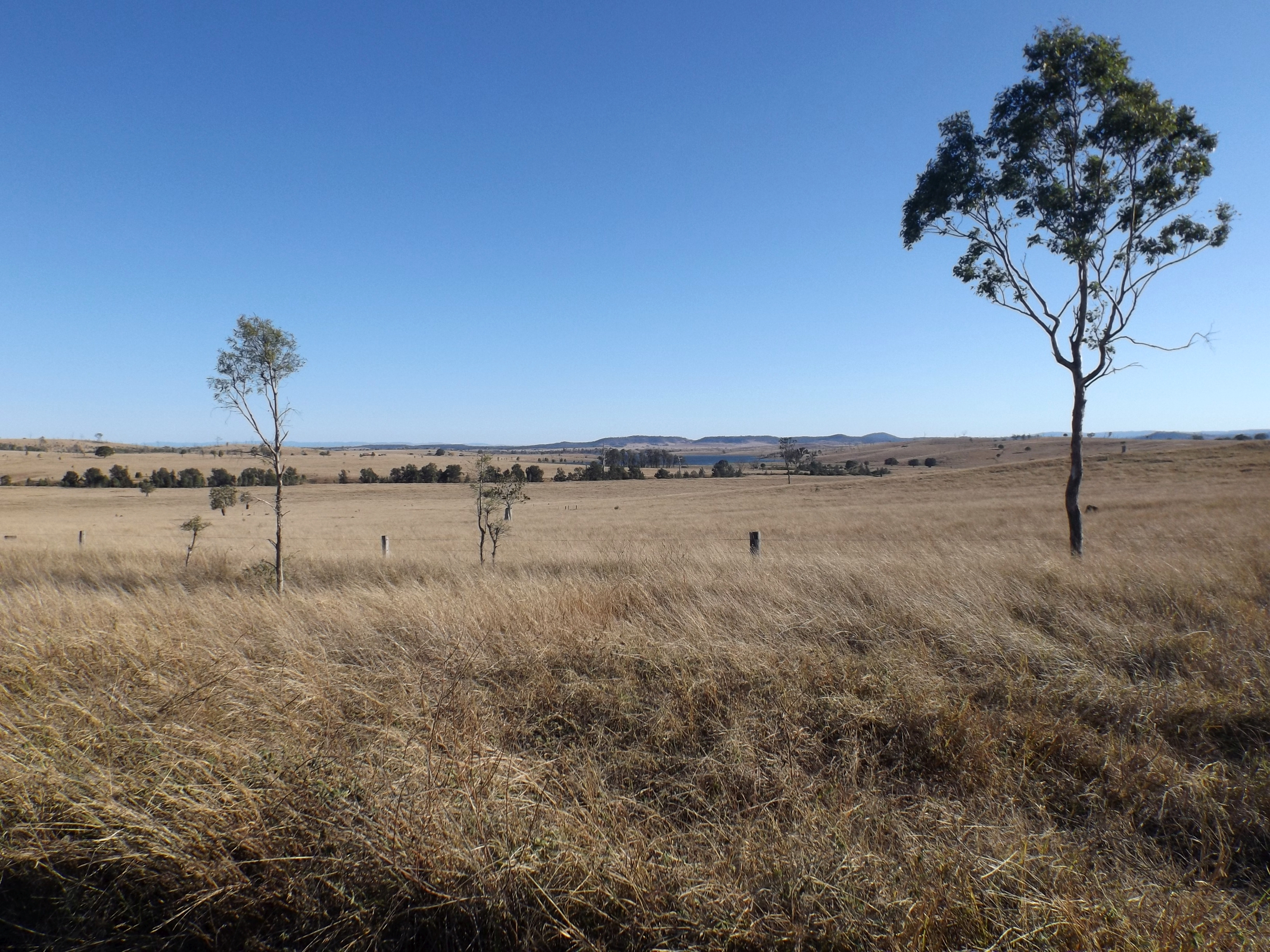 Photo of paddocks along Corcorans Road at Bryden, Somerset Region, Queensland, Australia